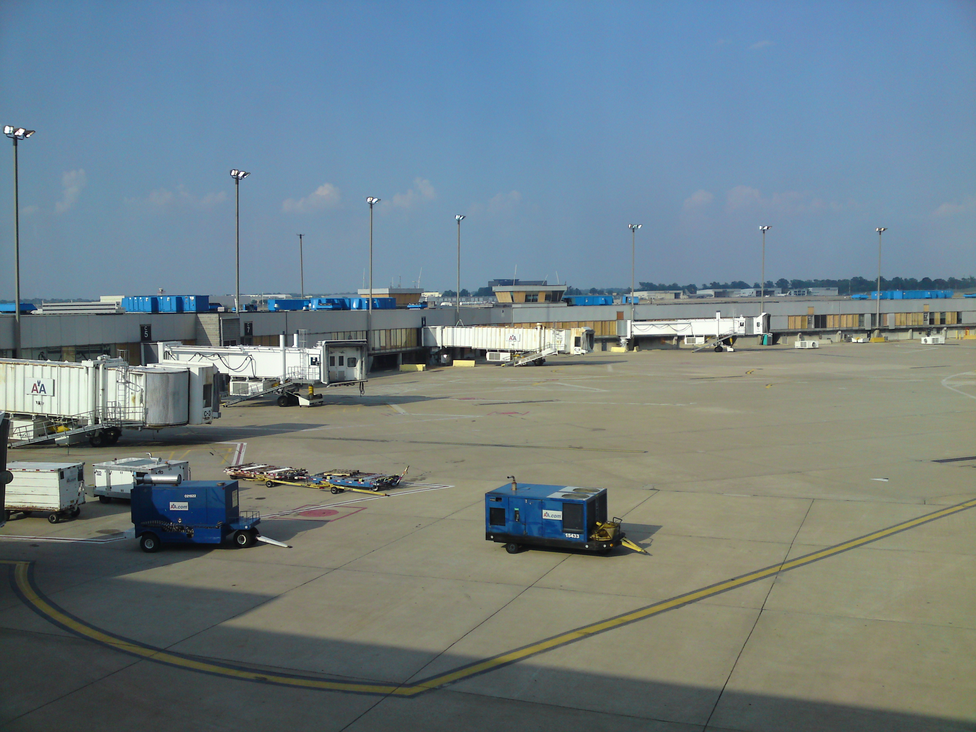 Concourse C Gates STL (with tornado damage)